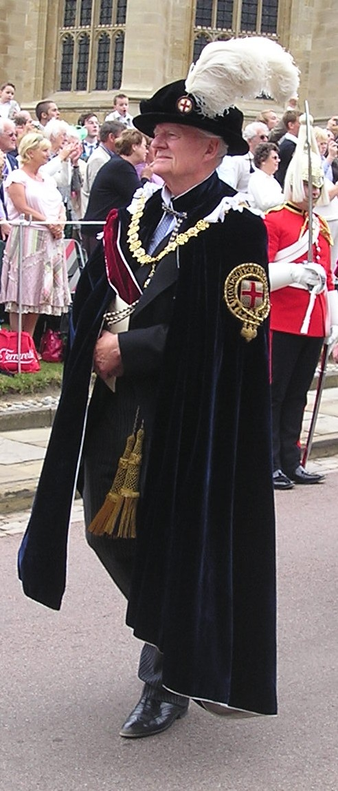 Sir Timothy Colman wearing his robes as a Knight Companion of the Order of the Garter, in procession to St George's Chapel, Windsor Castle for the annual service of the Order of the Garter.